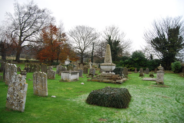 Churchyard, St Mary and All Saints, Boxley